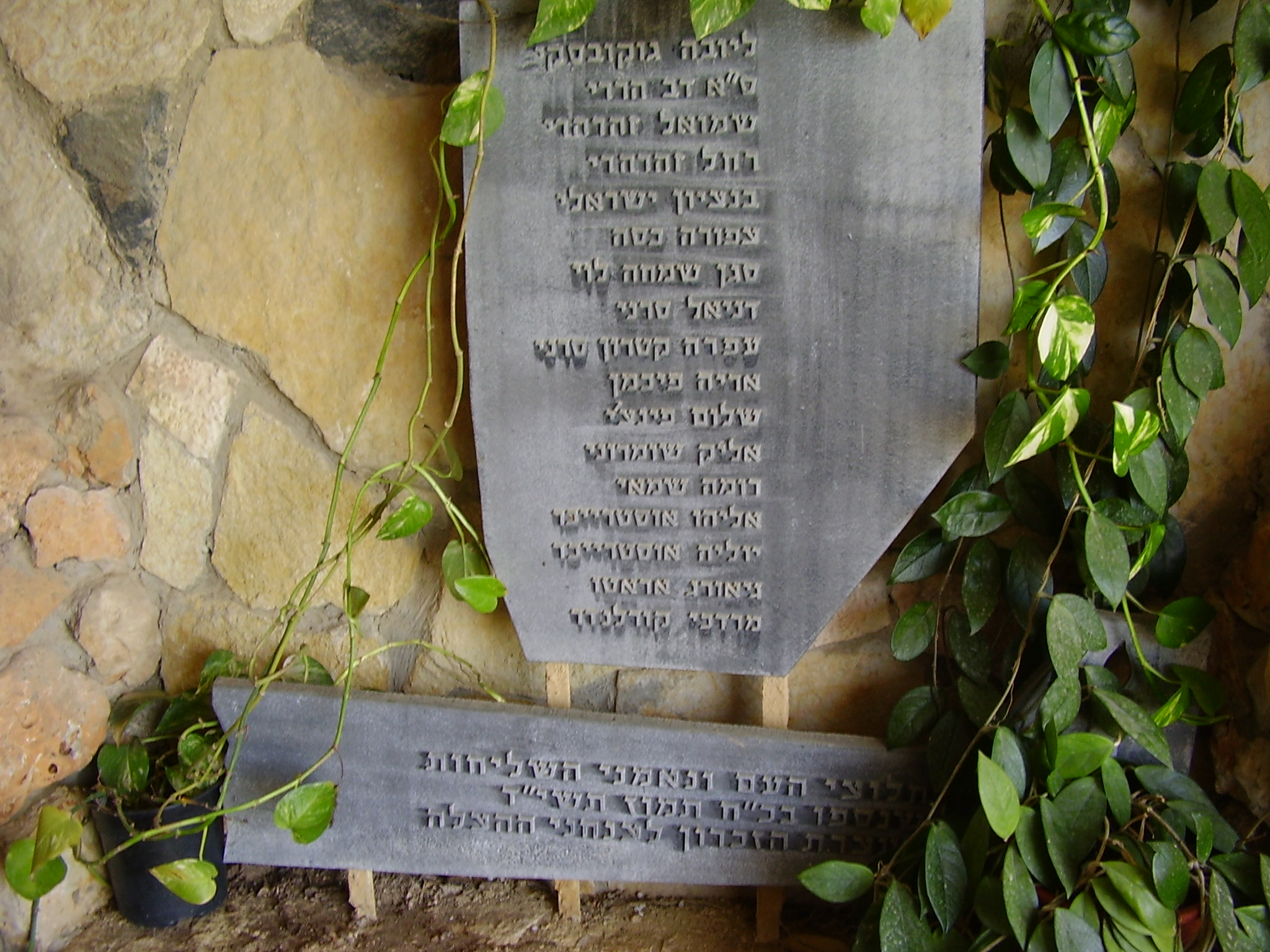 Kibbutz Ma'agan